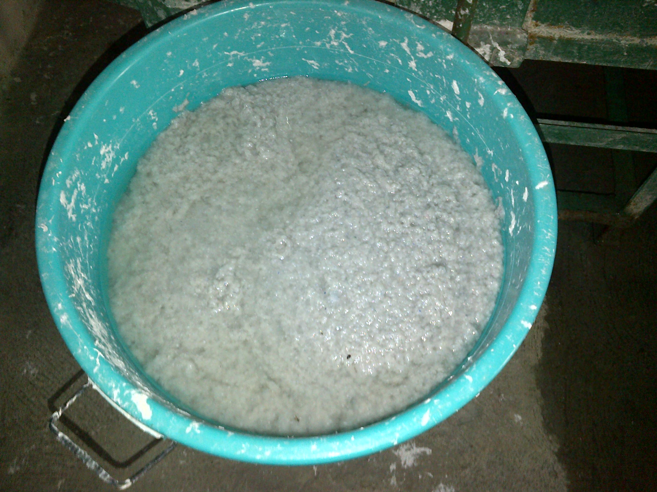 pulp(ಪಲ್ಪ್)